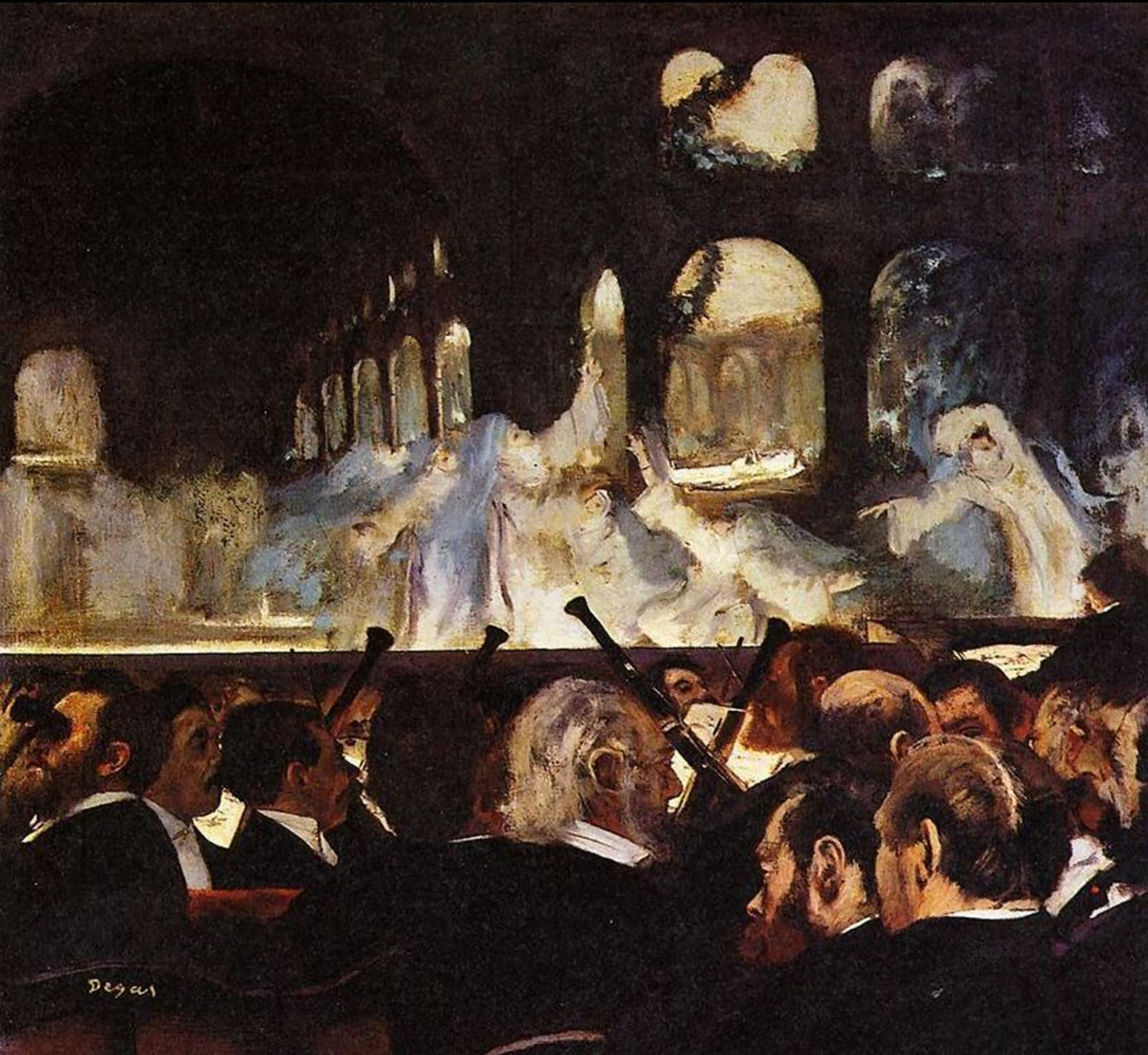 Ballet Scene from Robert le Diable